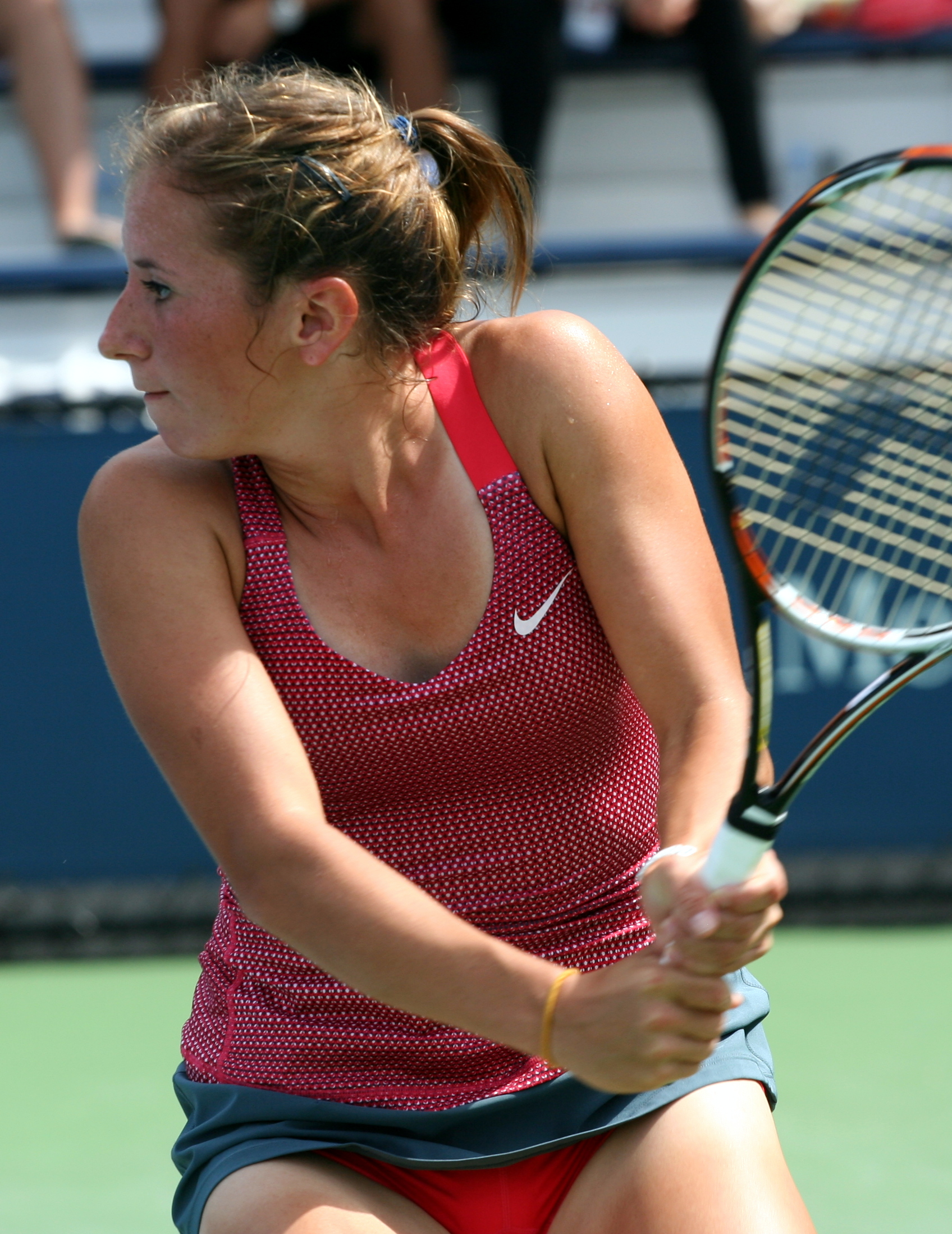 Annika Beck at the 2013 US Open